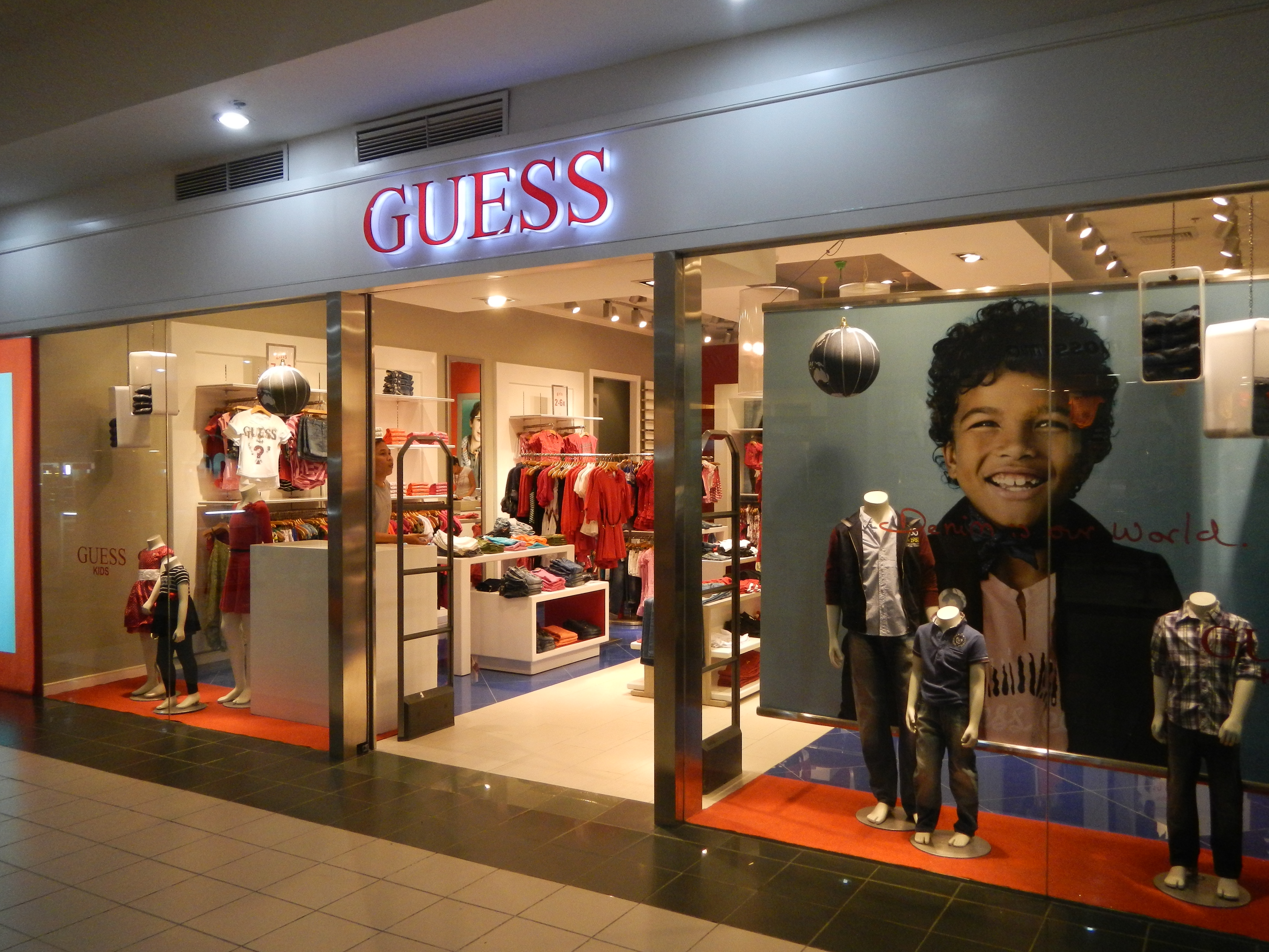 Guess[1], Cabanatuan City